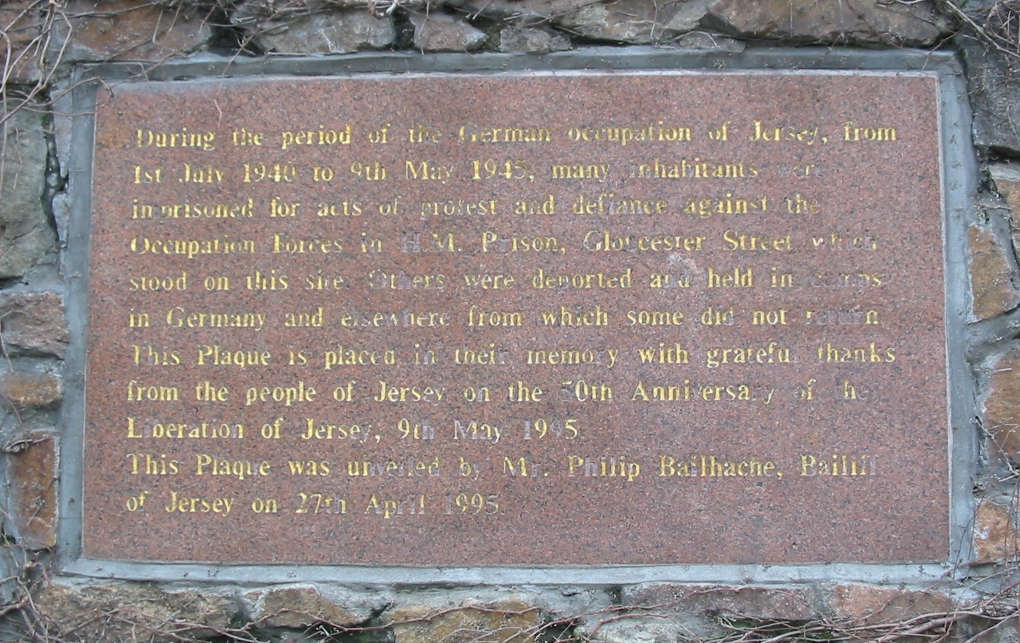 "During the period of the German occupation of Jersey, from 1st July 1940 to 9th May 1945, many inhabitants were imprisoned for acts of protest and defiance against the Occupation Forces in H.M. Prison, Gloucester Street which stood on this site. Others were deported and held in camps in Germany and elsewhere from which some did not return. This Plaque is placed in their memory with grateful thanks from the people of Jersey on the 50th Anniversary of the Liberation of Jersey, 9th May 1995. This Plaque was unveiled by Mr. Philip Bailhache, Bailiff of Jersey on 27th April 1995."